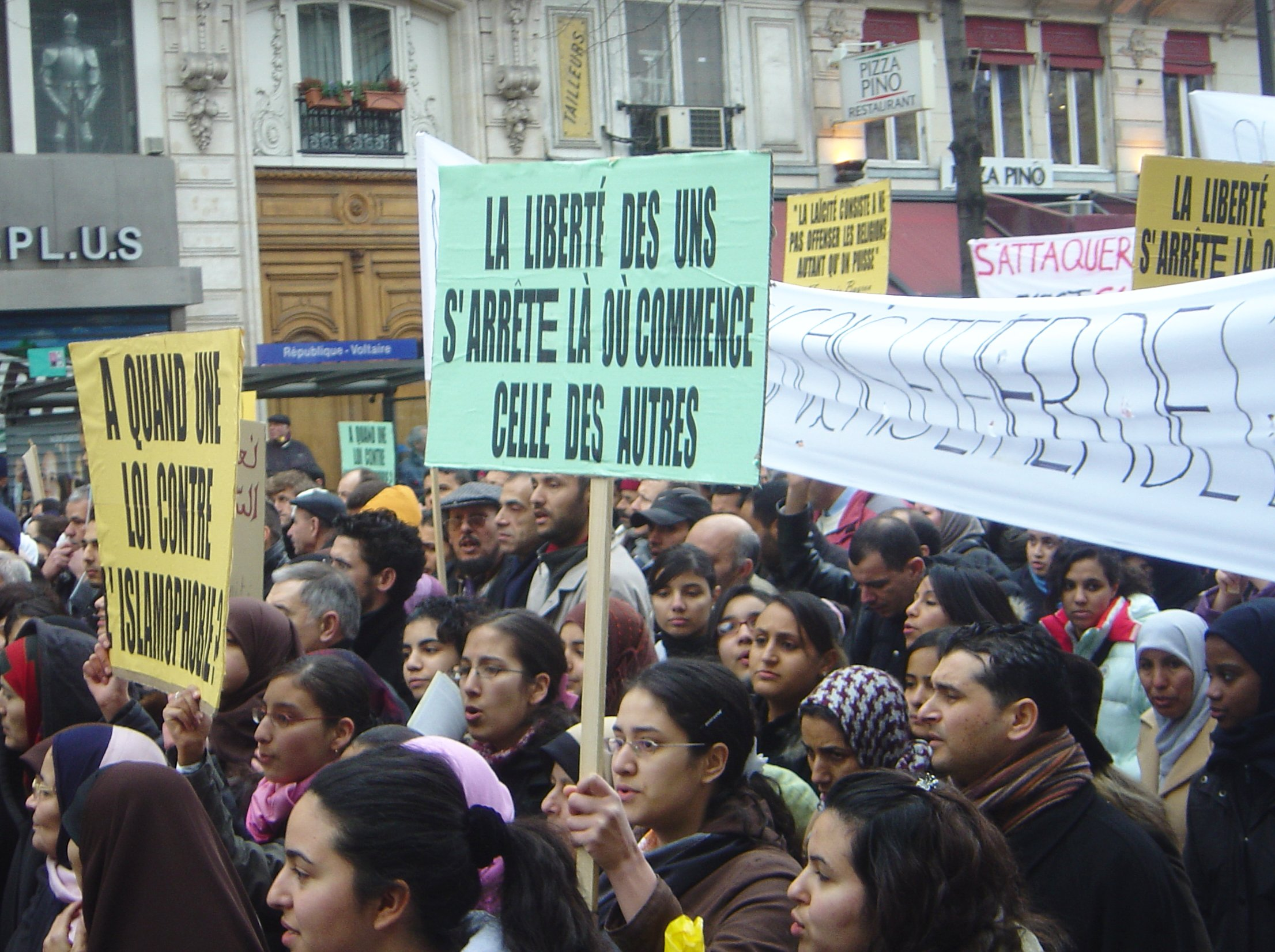 [February 11, 2006 Parisian protest against the publication of caricatures of Muhammad